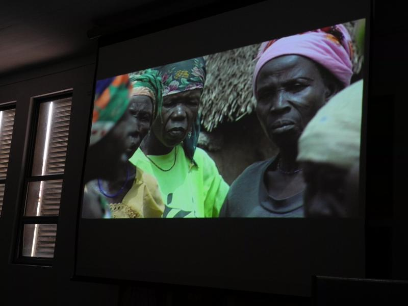 Film screening at the African Gender Institute